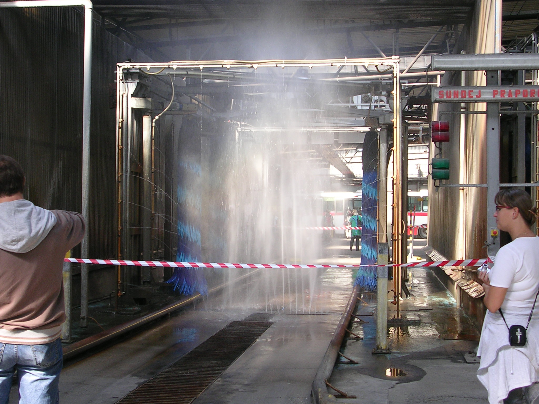 Bus wash-stand. Visiting day in the bus garage Prague-Klíčov, Czech Republic.